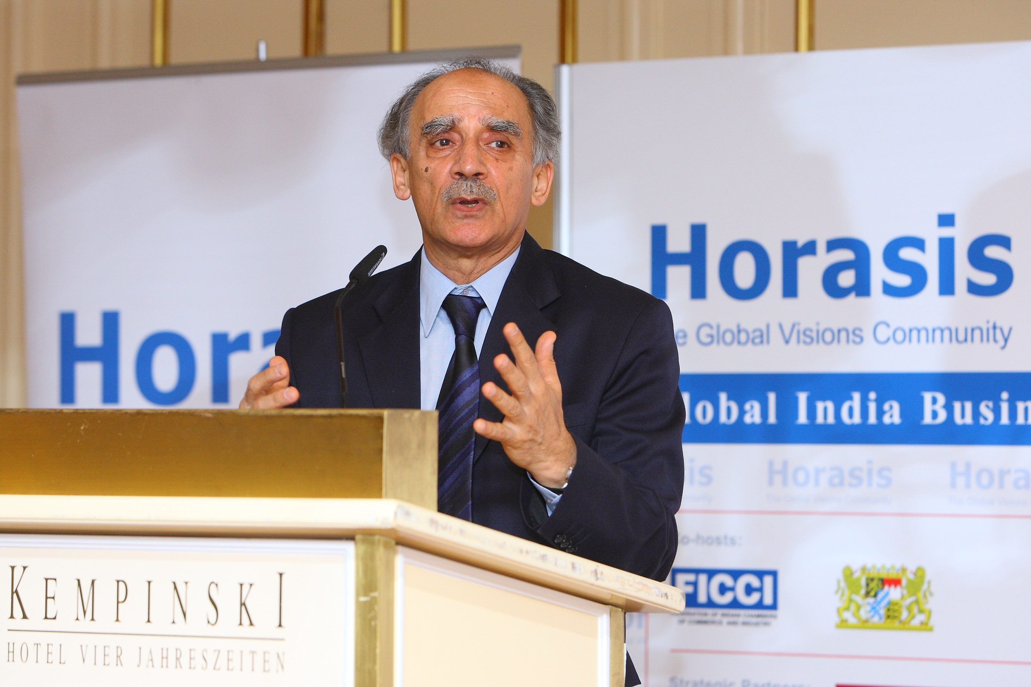 Arun Shourie, Former Minister of Disinvestment, addressing participants at Horasis Global India Business Meeting 2009